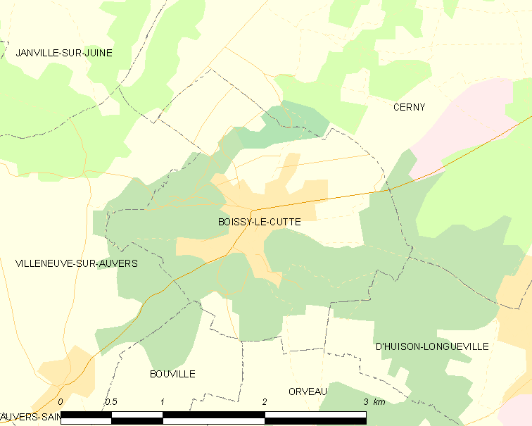 Map of French municipality Boissy-le-Cutté